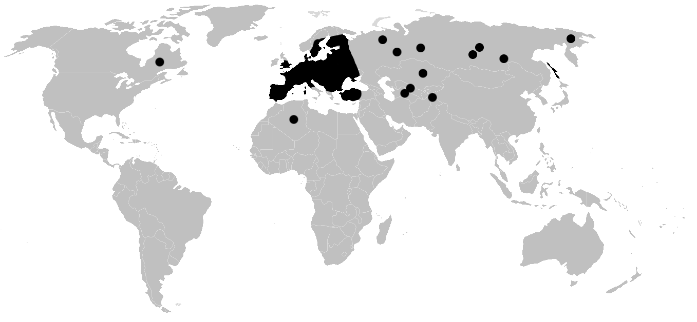 Known world range of Synageles venator, after data from British Arachnological Society